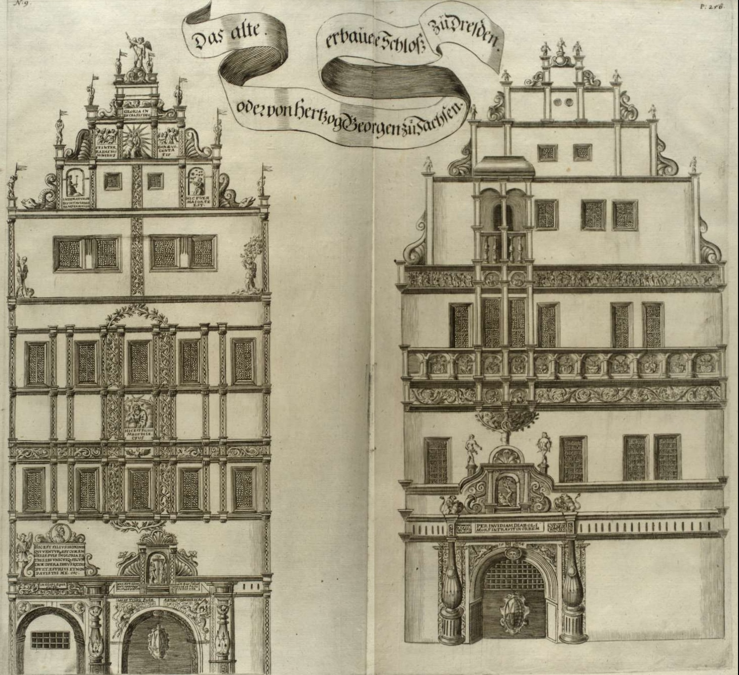 Das Georgentor des Dresdner Residenzschlosses: links die Fasssade zur Stadtseite, rechts die Fassade zur Elbseite mit dem Dresdner Totentanz Kupferstich in Anton Wecks: Der Chur-Fürstlichen Sächsischen weitberuffenen Residentz- und Haupt-Vestung Dresden Beschreib: und Vorstellung : Auf der Churfürstlichen Herrschafft gnädigstes Belieben in Vier Abtheilungen verfaßet/ mit Grund: und anderen Abrißen/ auch bewehrten Documenten/ erläutert / Durch ... Antonium Wecken Nürnberg : Hoffmann, 1680